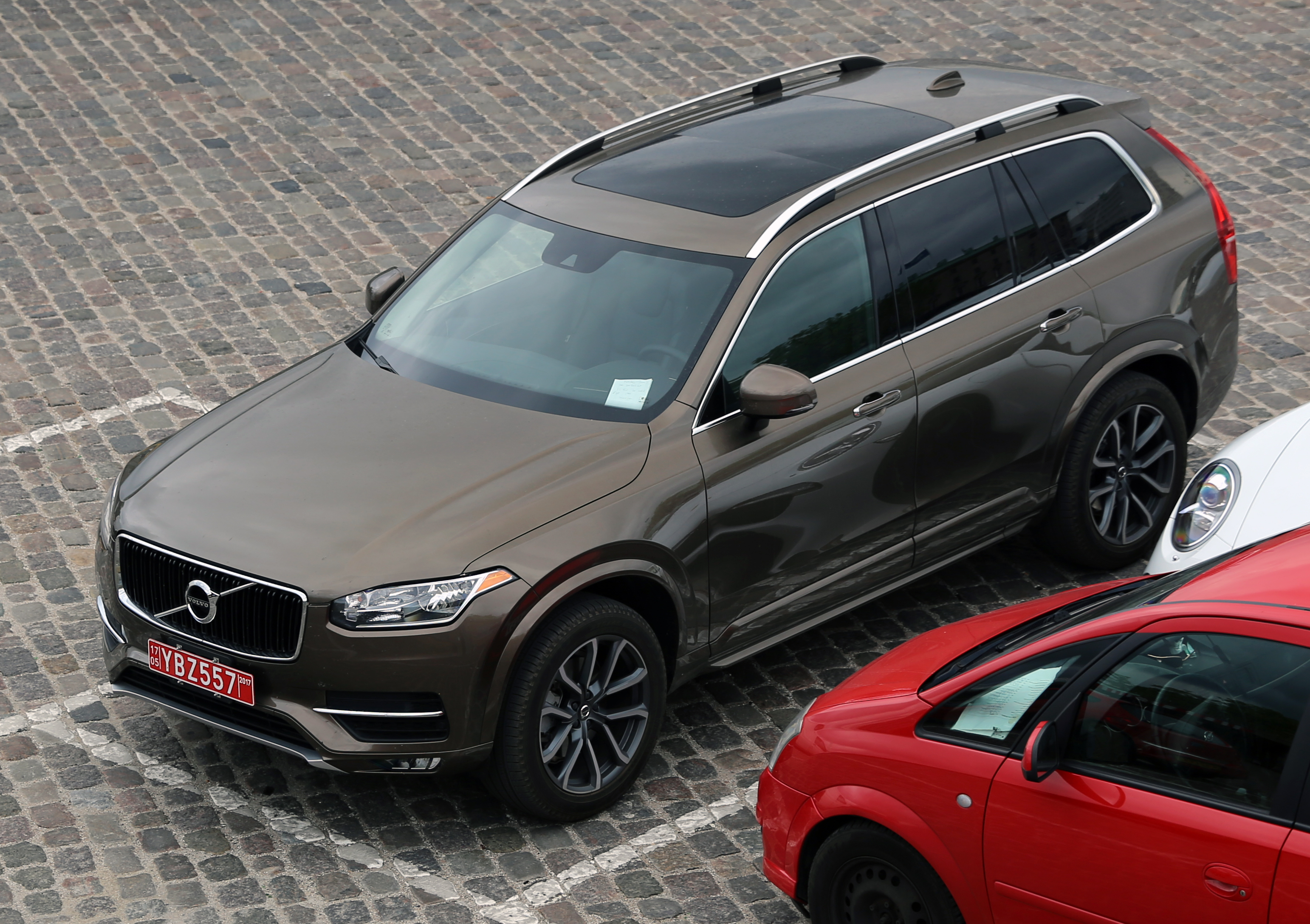 A 2016 Volvo XC90 on delivery plates in Denmark.